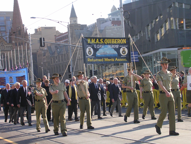 Australian Army Cadets parading through Melbourne CBD on ANZAC Day, 2006.